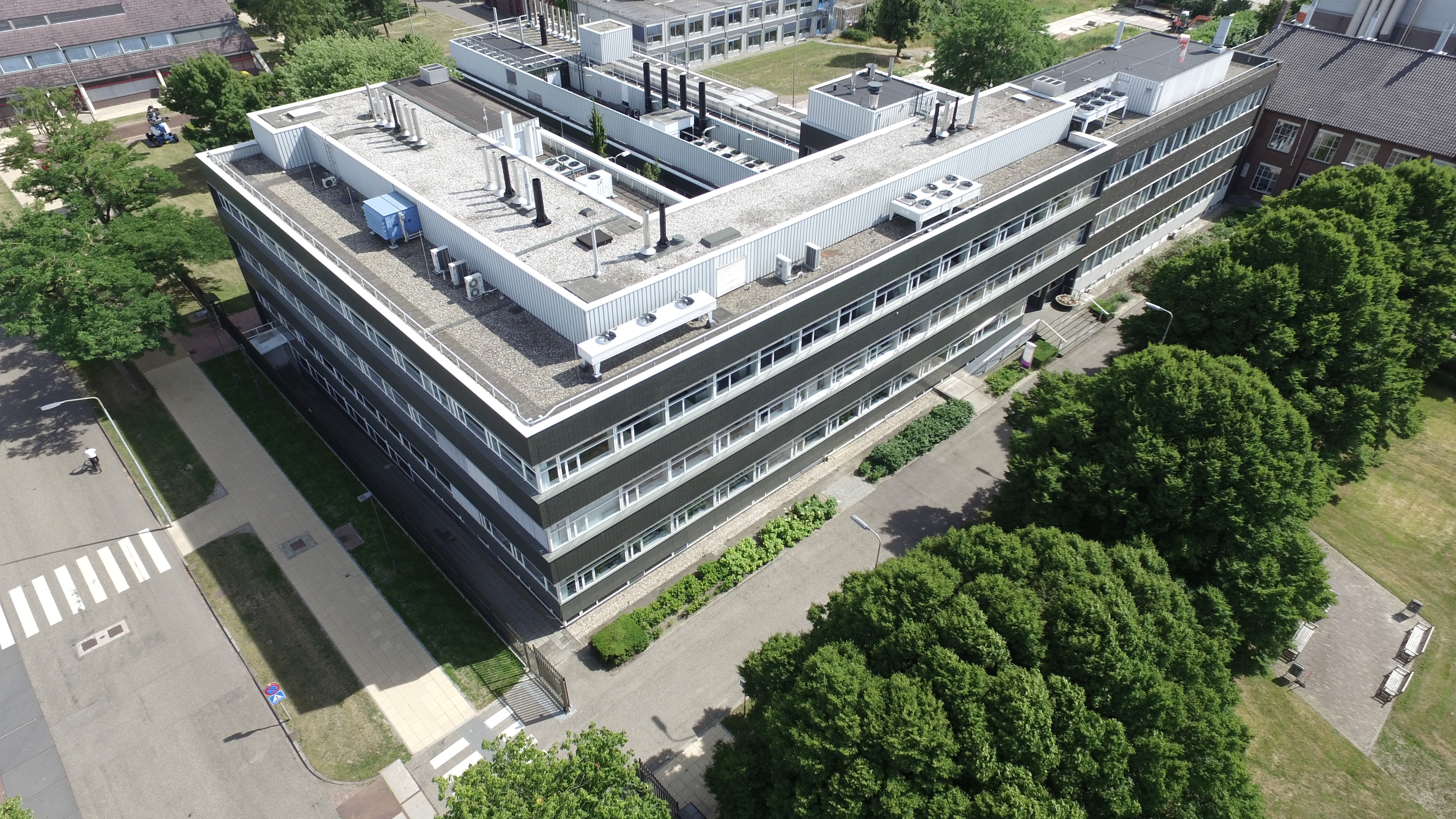 This is a picture of the building of Synaffix BV